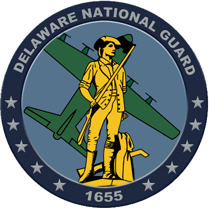 Delaware National Guard - Emblem